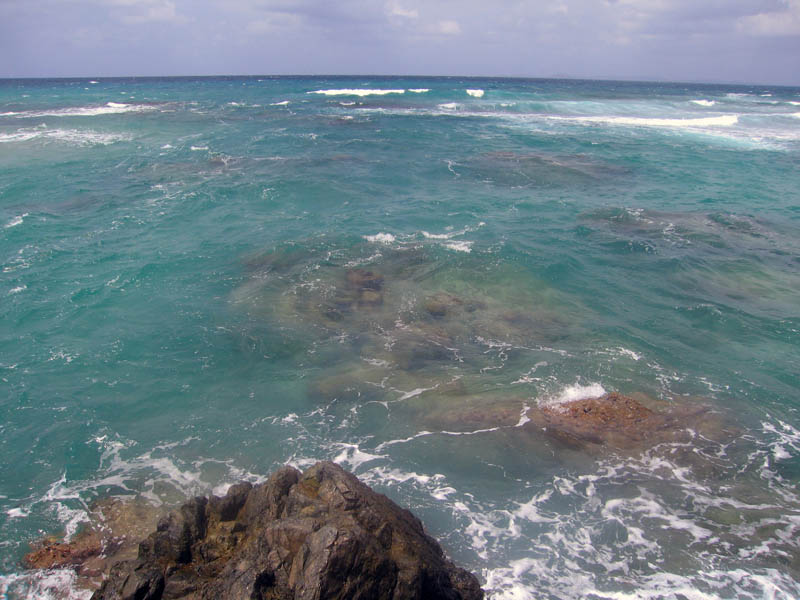 Coral reefs, Atlantic Ocean, La Chata Beach, Vieques Island, Puerto Rico